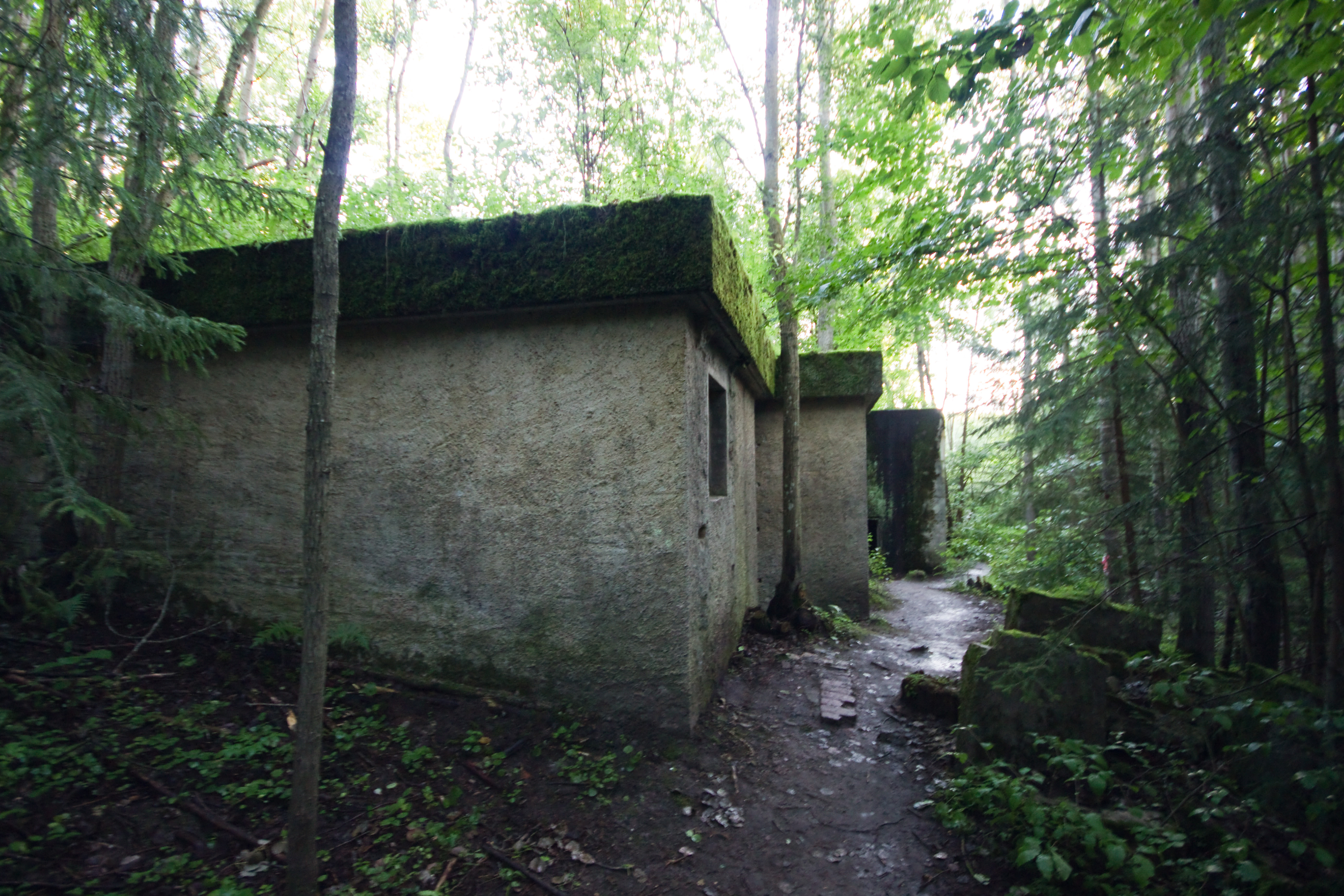 Mamerki, gmina Węgorzewo, powiat węgorzewski, Warmian-Masurian Voivodeship